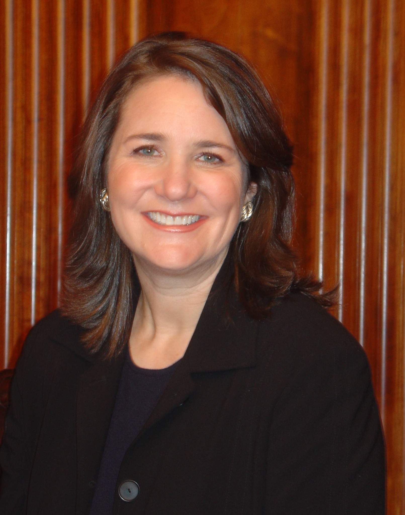 Diana DeGette, member of the United States House of Representatives.